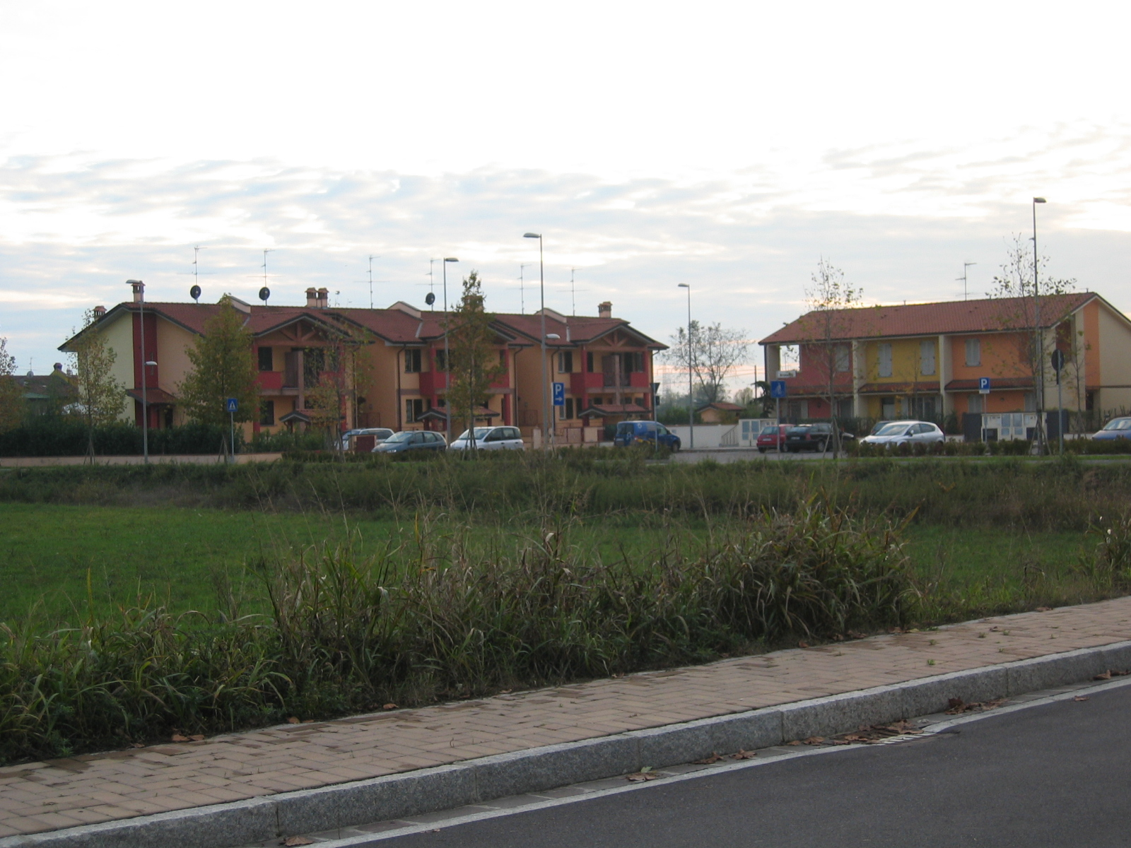 A view of Geromina, Treviglio